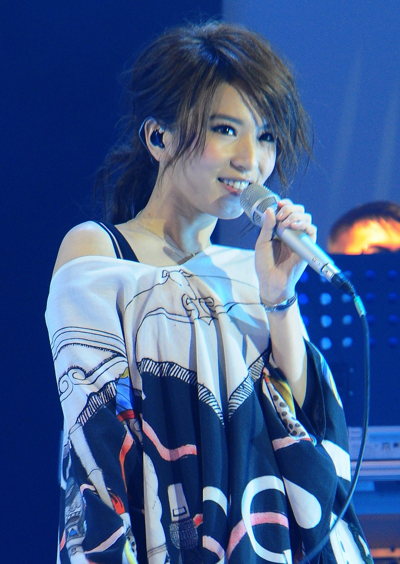 Hebe Tien's first concert "Love! To Hebe Live" in Hong Kong on 6/11/2010 Bân-lâm-gú: 2010-nî 11-goe̍h 6-ji̍t, Tiân Ho̍k-chin(田馥甄) tī Hiong-káng ê kò-jîn im-ga̍k-hoē. 『Love!田馥甄To Hebe音樂會』.